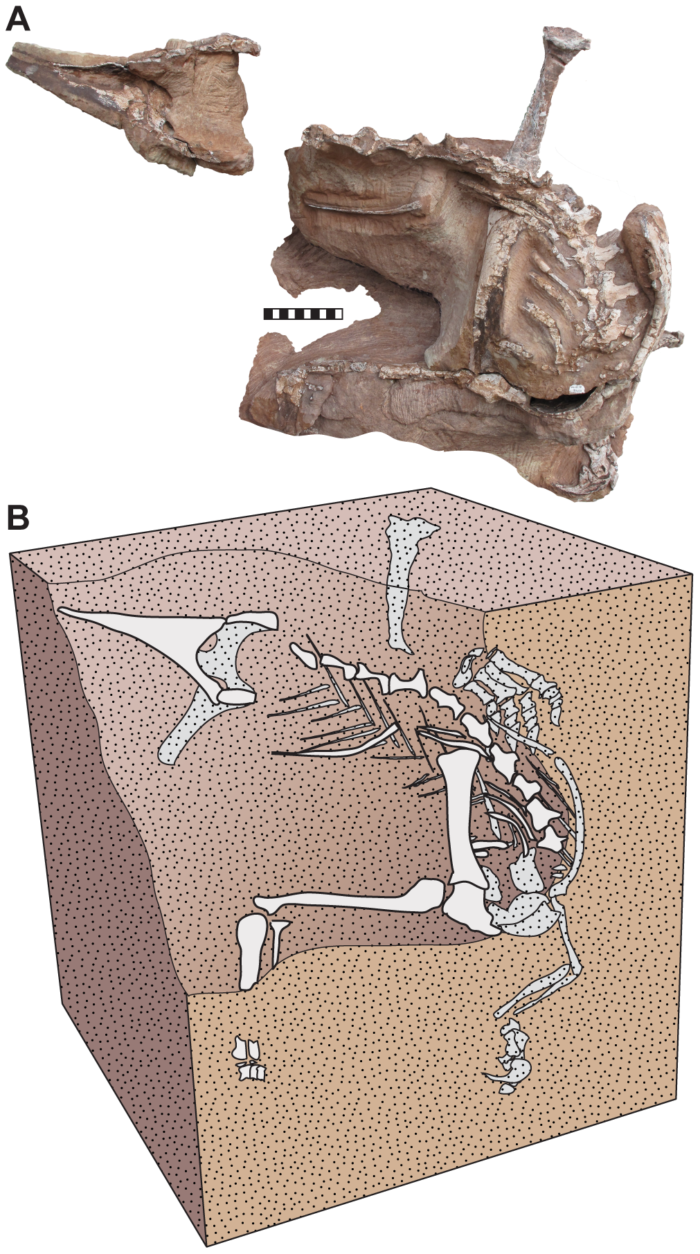 Position of the remains of Seitaad ruessi (UMNH VP 18040). Position reconstructed as discovered relative to bedding (A) with reconstruction of the specimen (B). White indicates bones exposed on the surface. Scale bar equals 10 cm. [planned for column width]